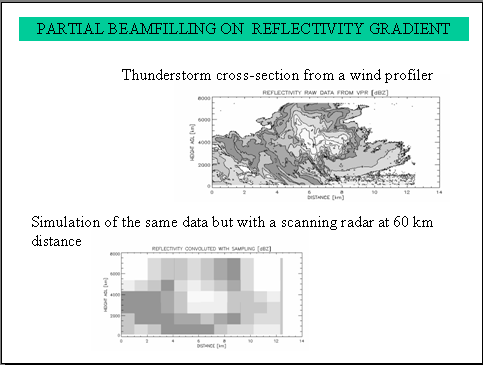 Comparison of high resolution data of a cross-section of a thunderstorm taken from a wind profiler just under the cloud and what a scanning weather radar would see at 60 km distance.